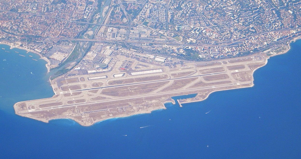 Aerial view of Aéroport Nice Côte d'Azur